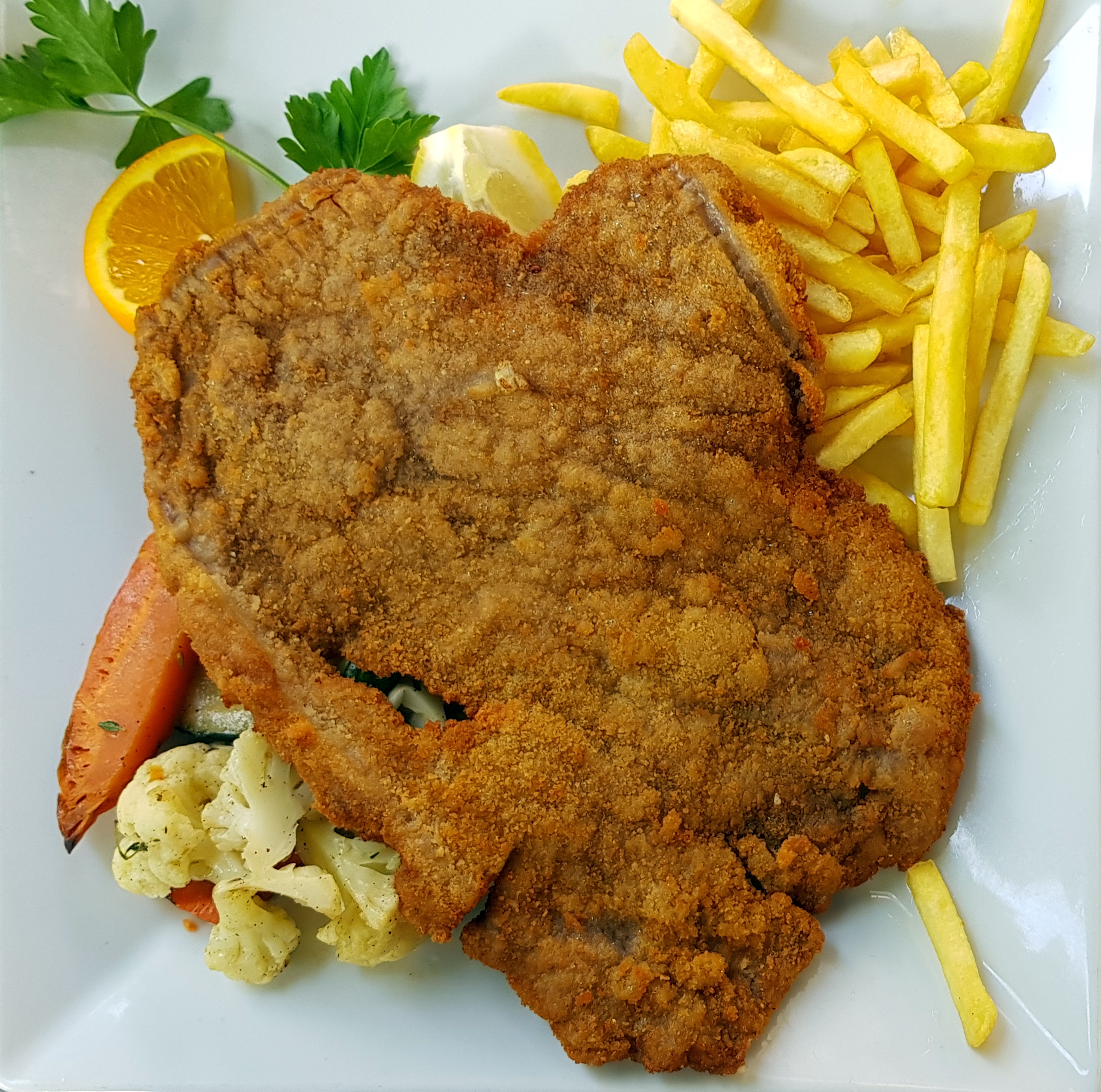 Wiener schnitzel with french fries